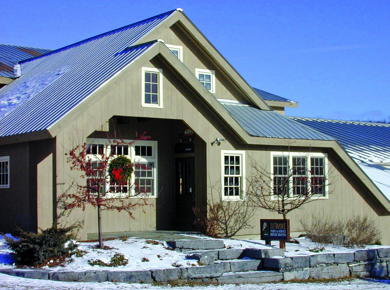 Front Entrance